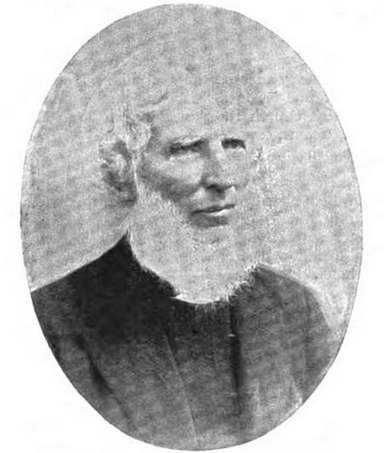 Portrait of James Calder Macphail.